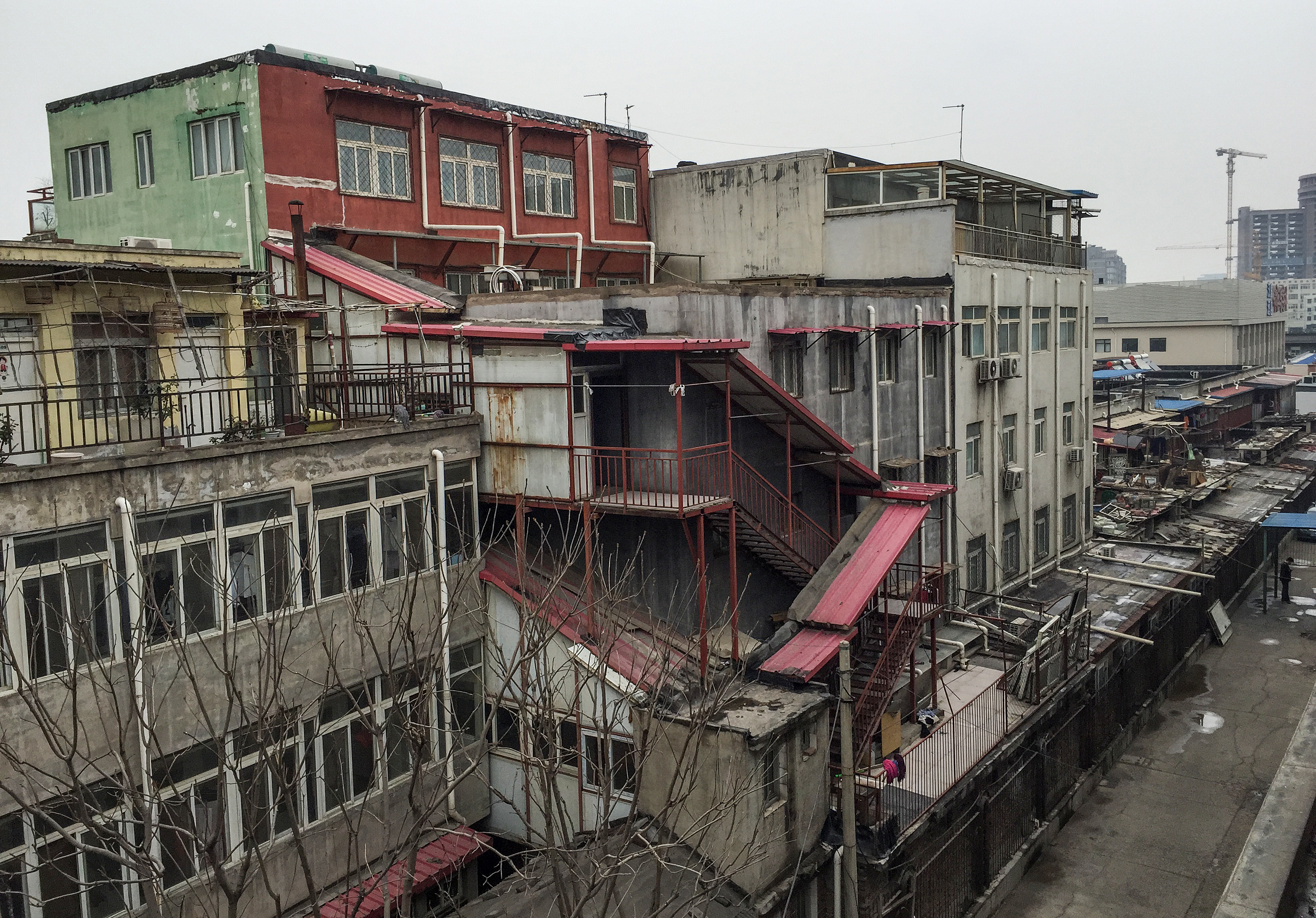 With a higher density than Shengou.